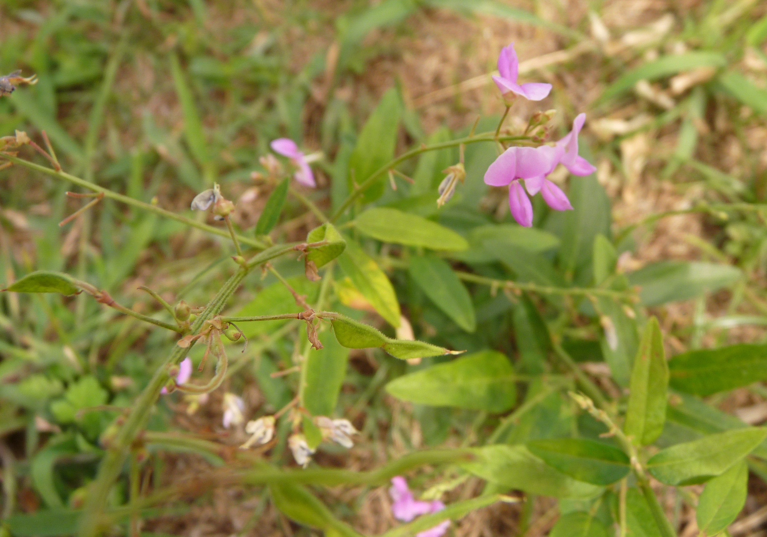 Flowers and fruits of Desmodium paniculatum